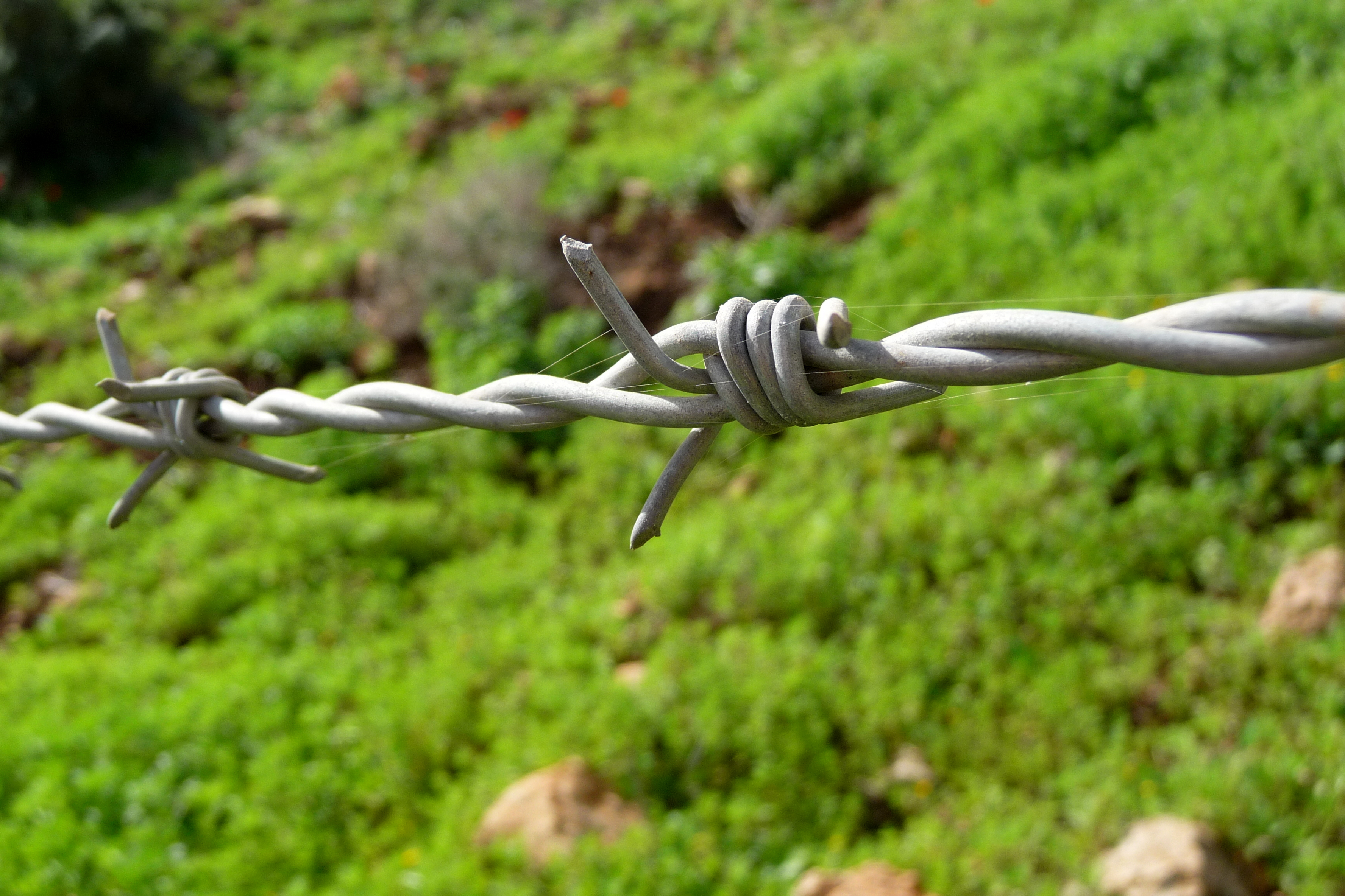 Carmel Park